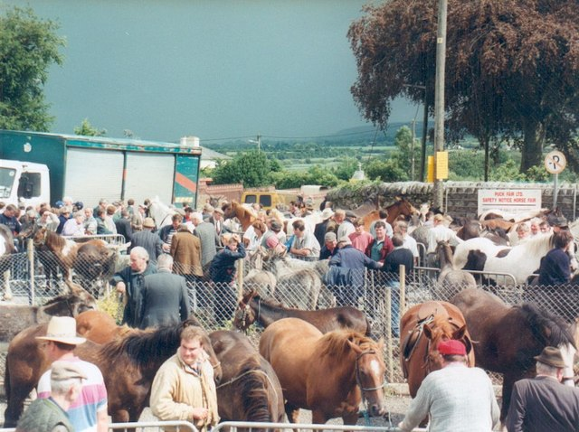 Horse trading at Killorglin fair.